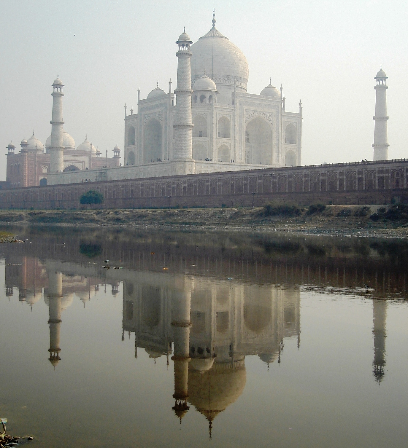 This is a picture of The Taj Mahal as viewed from the Northern Bank of river Yamuna, A nice reflection of the monument is visible.